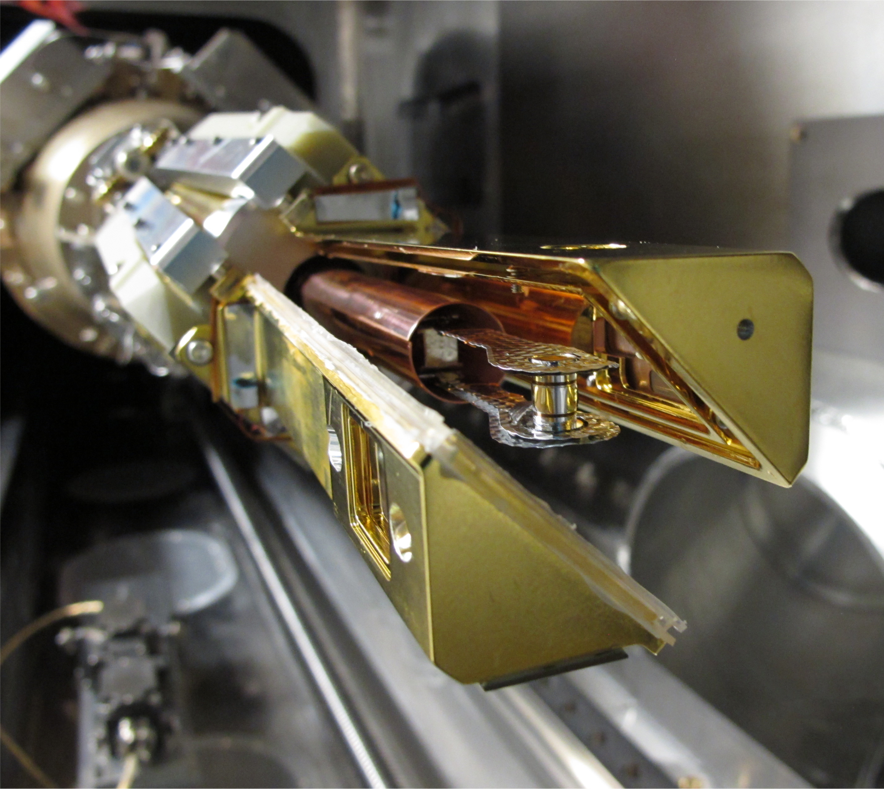 The target assembly for NIF's first integrated ignition experiment on Sept. 30, 2010, is mounted in the cryogenic target positioning system, or cryoTARPOS. The two triangle-shaped arms form a shroud around the cold target to protect it until they open five seconds before a shot.